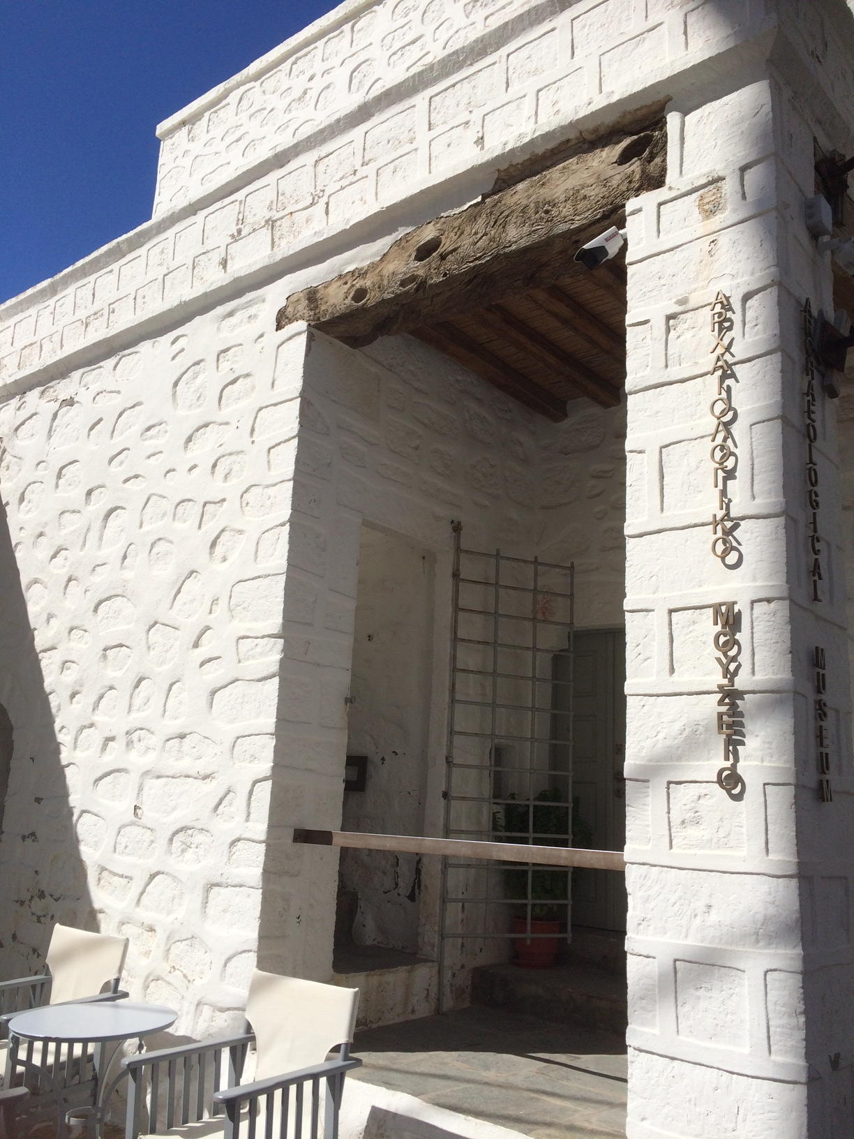 The archaeological museum of Kimolos in the Cyclades